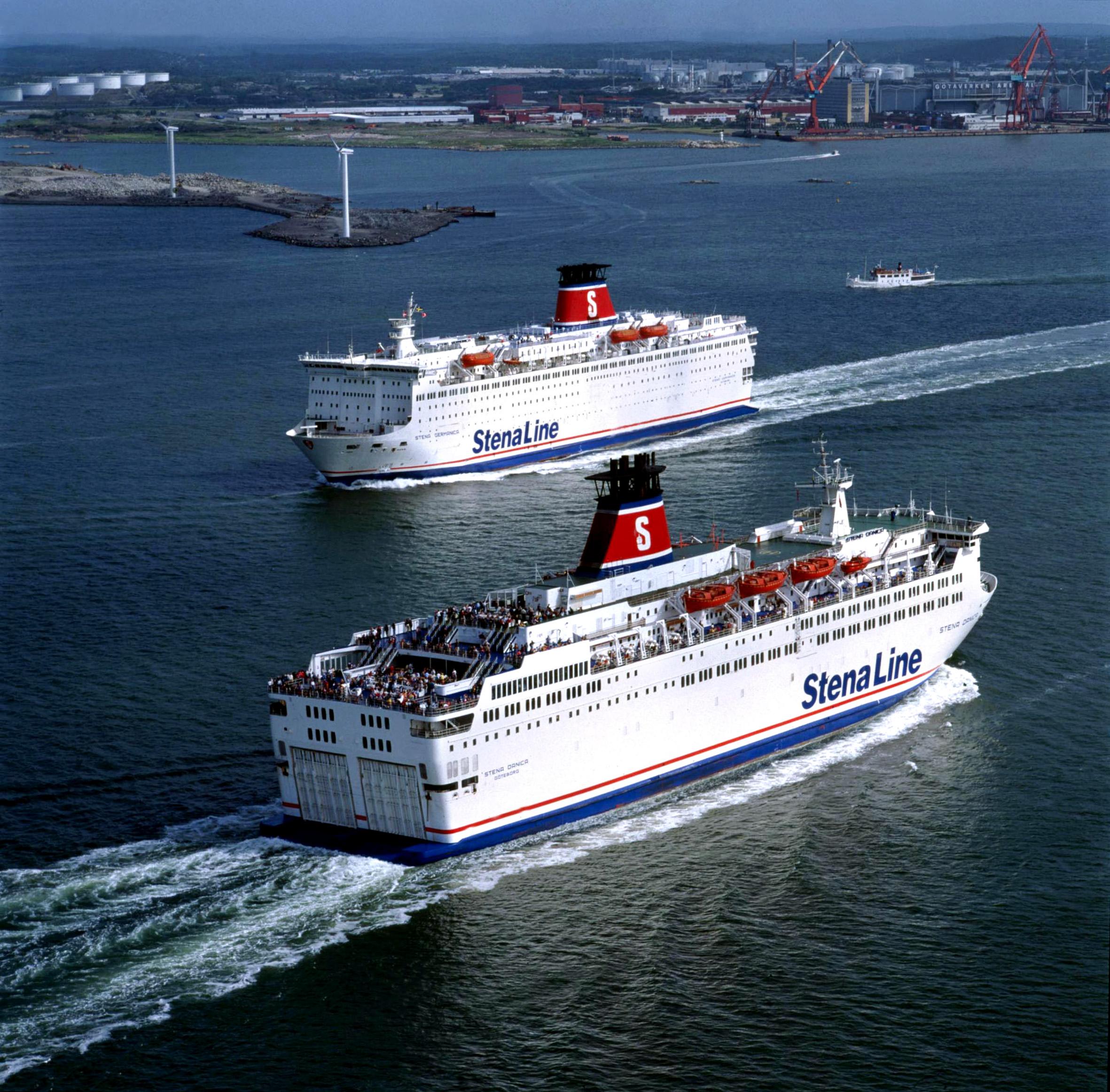 Cruiseferries MS Stena Germanica (renamed Stena Vision in 2010) and MS Stena Danica of Stena Line passing each other in the harbour of Gothenburg.